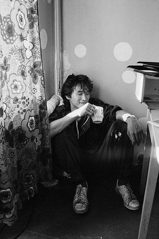 Viktor Tsoi in Moscow, 1986